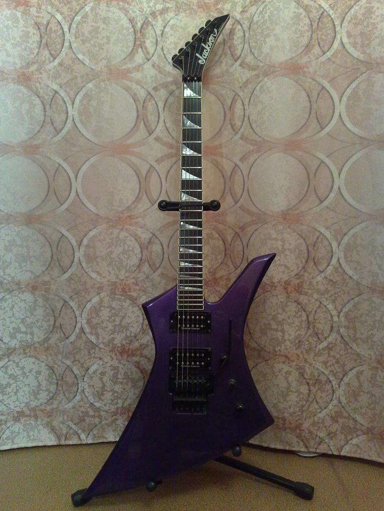 Jackson KE2 Kelly electric guitar